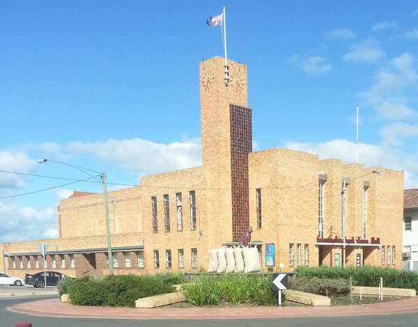 Former Warracknabeal Town Hall cnr Scott and Phillip Street